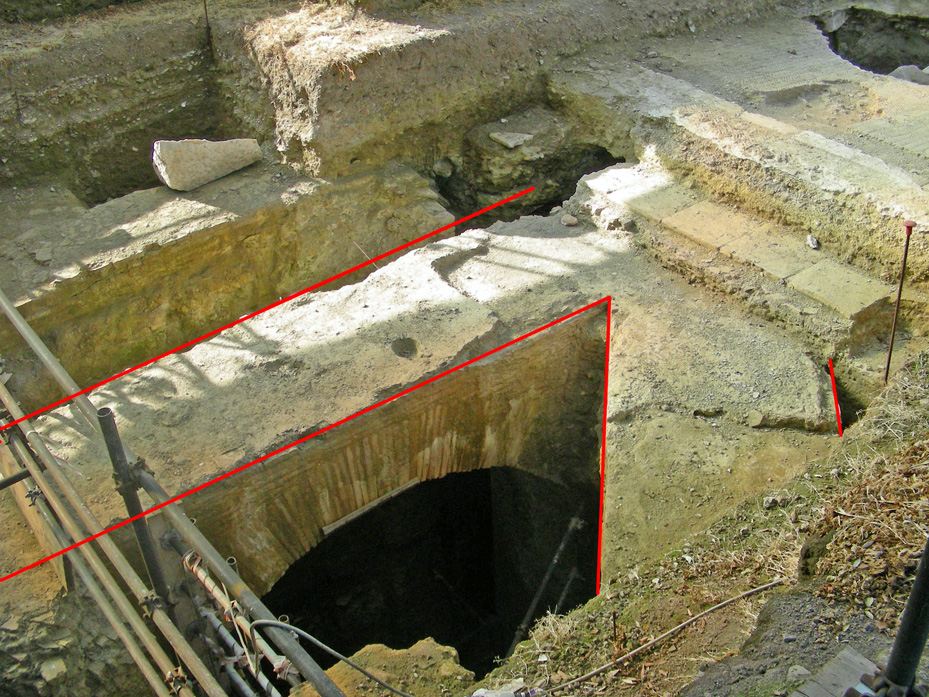 Rome, Palatine hill, Vigna Barberini, remains of the round structure of neronian age (excavations). In red the neronian radial walls